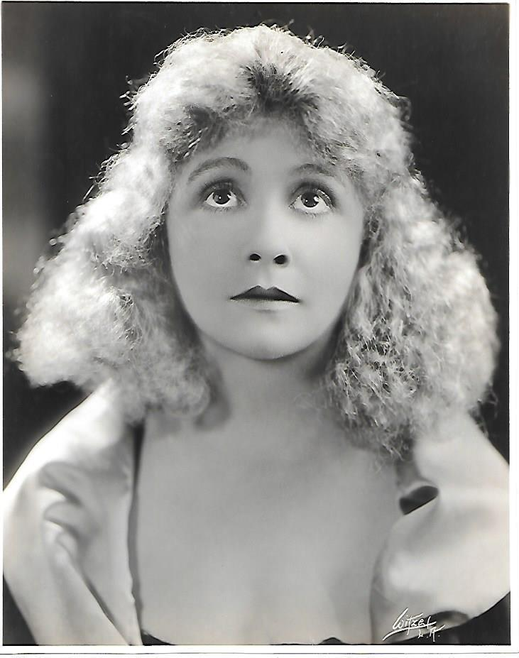 Portrait of American actress Bessie Barriscale (1884–1965) by American photographer Albert Witzel (1879– 1929).